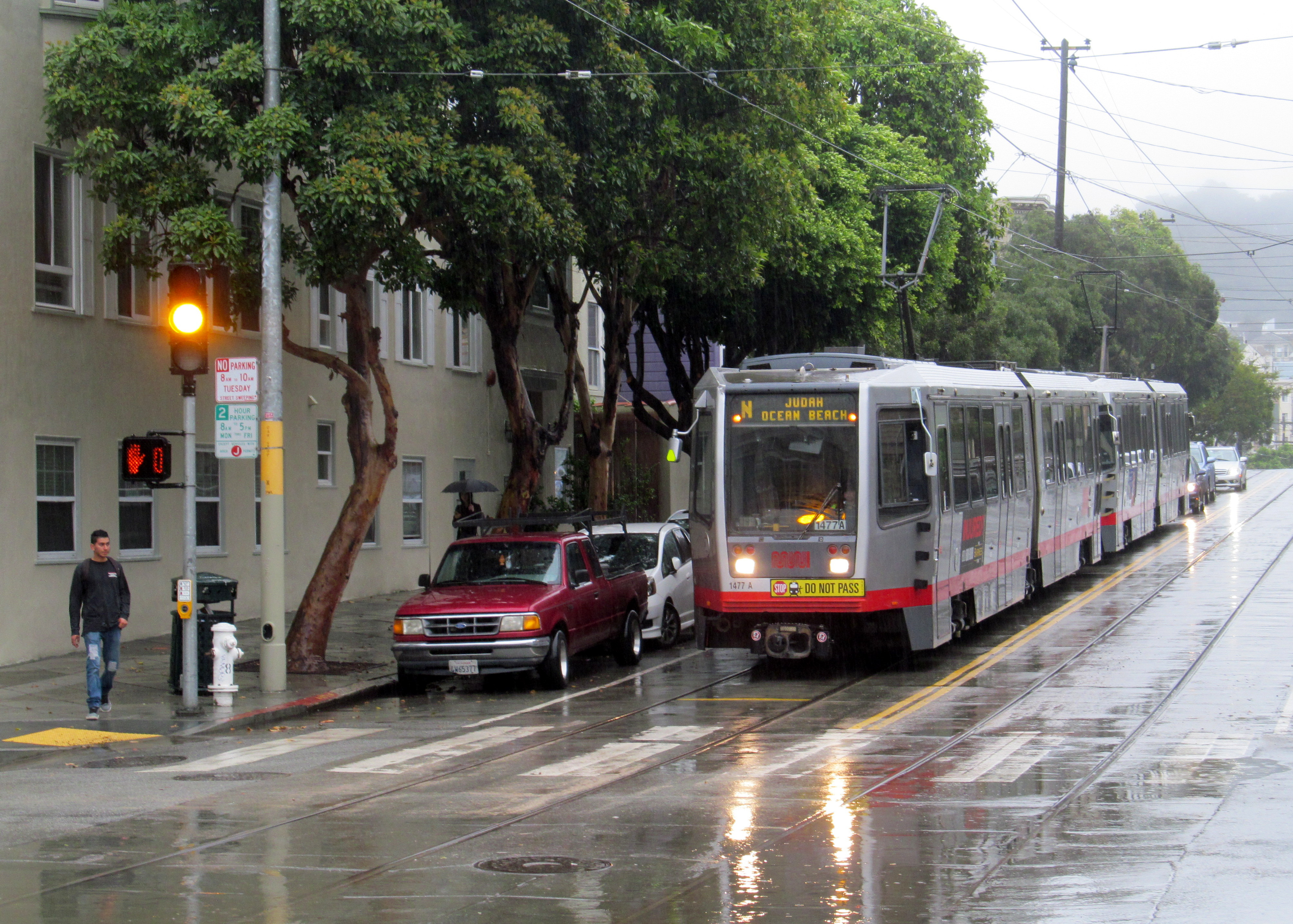 An outbound N Judah train at Carl and Stanyan in 2017